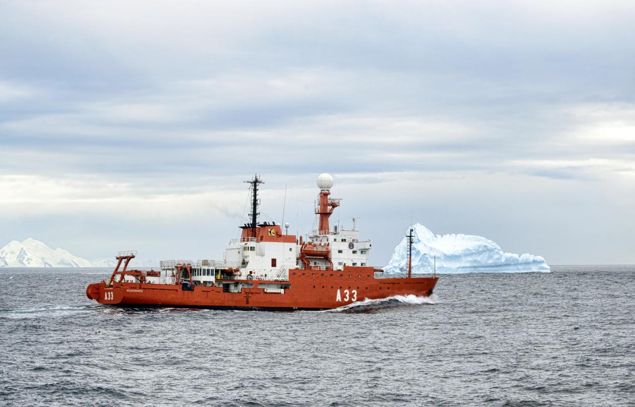 Antarctica 2013: Journey to the Crystal Desert